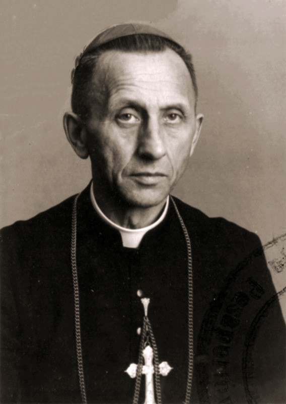 Antoni Baraniak (1904-1977) - Polish Roman Catholic prelate, Archbishop of Poznań from mid-1957 till death. Political prisoner 1953-1956